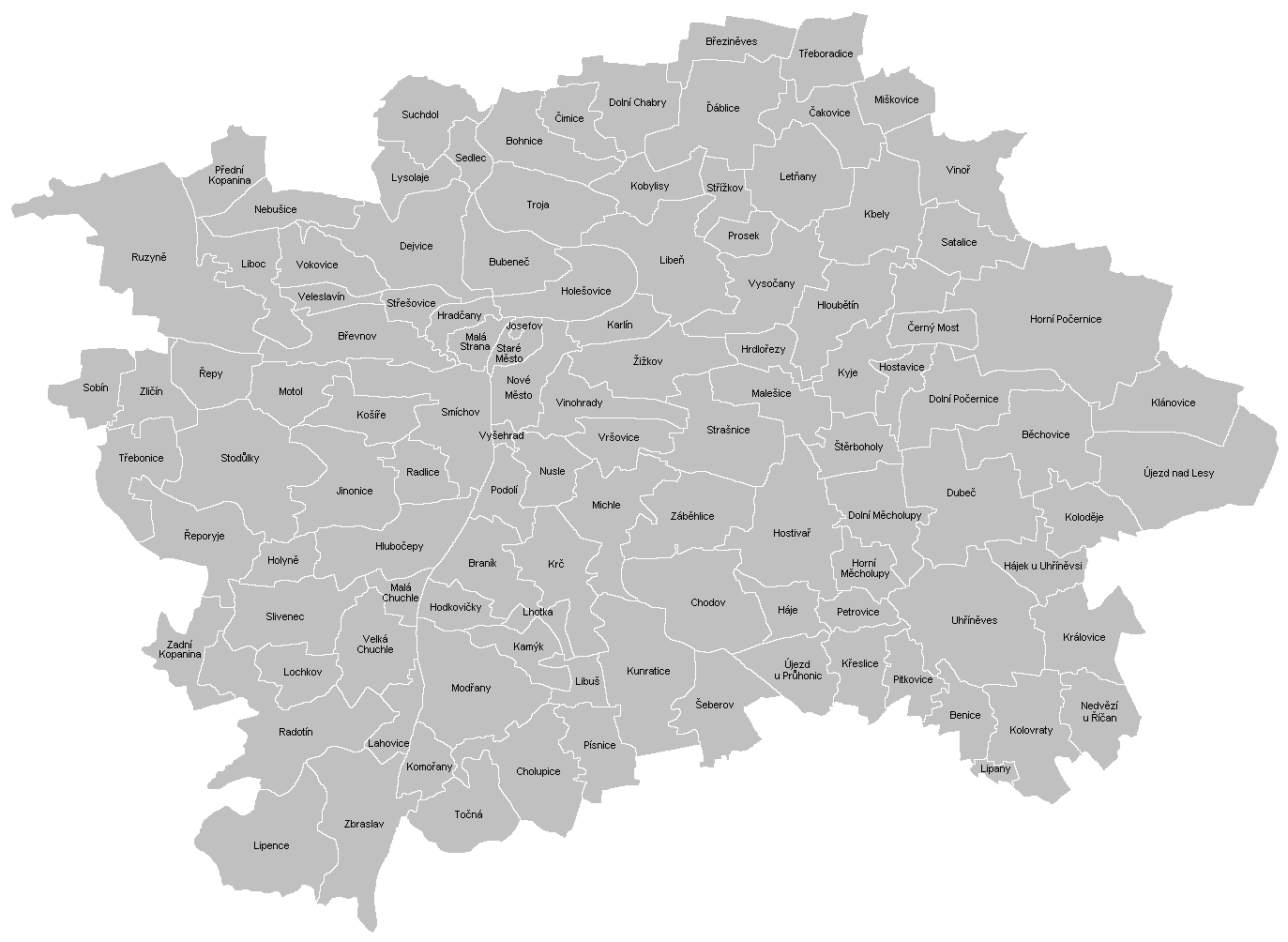 Cadastral map of Praha